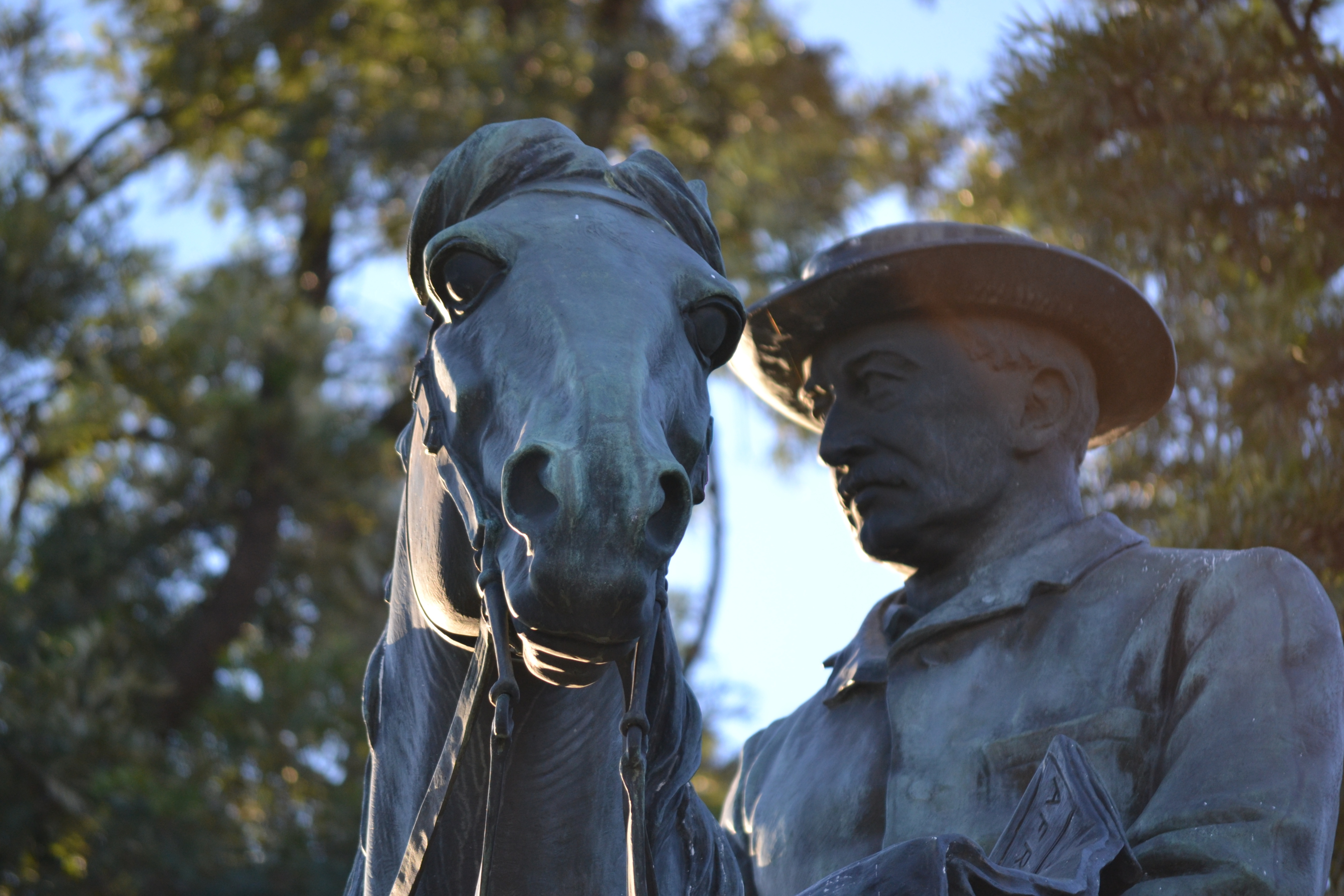 Cecil John Rhodes